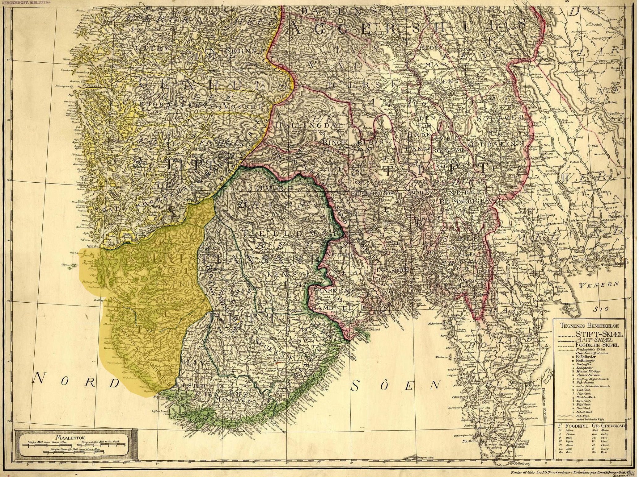 Stavanger amt. Made from Pontoppidans map from 1785